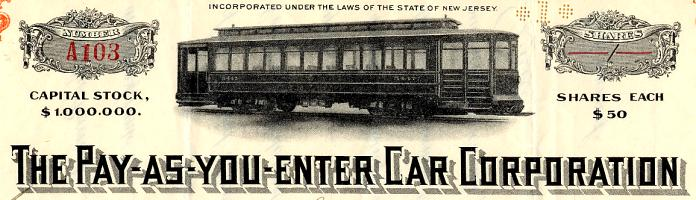 Detail from "Pay As You Enter Car Company" stock certificate, 1909.